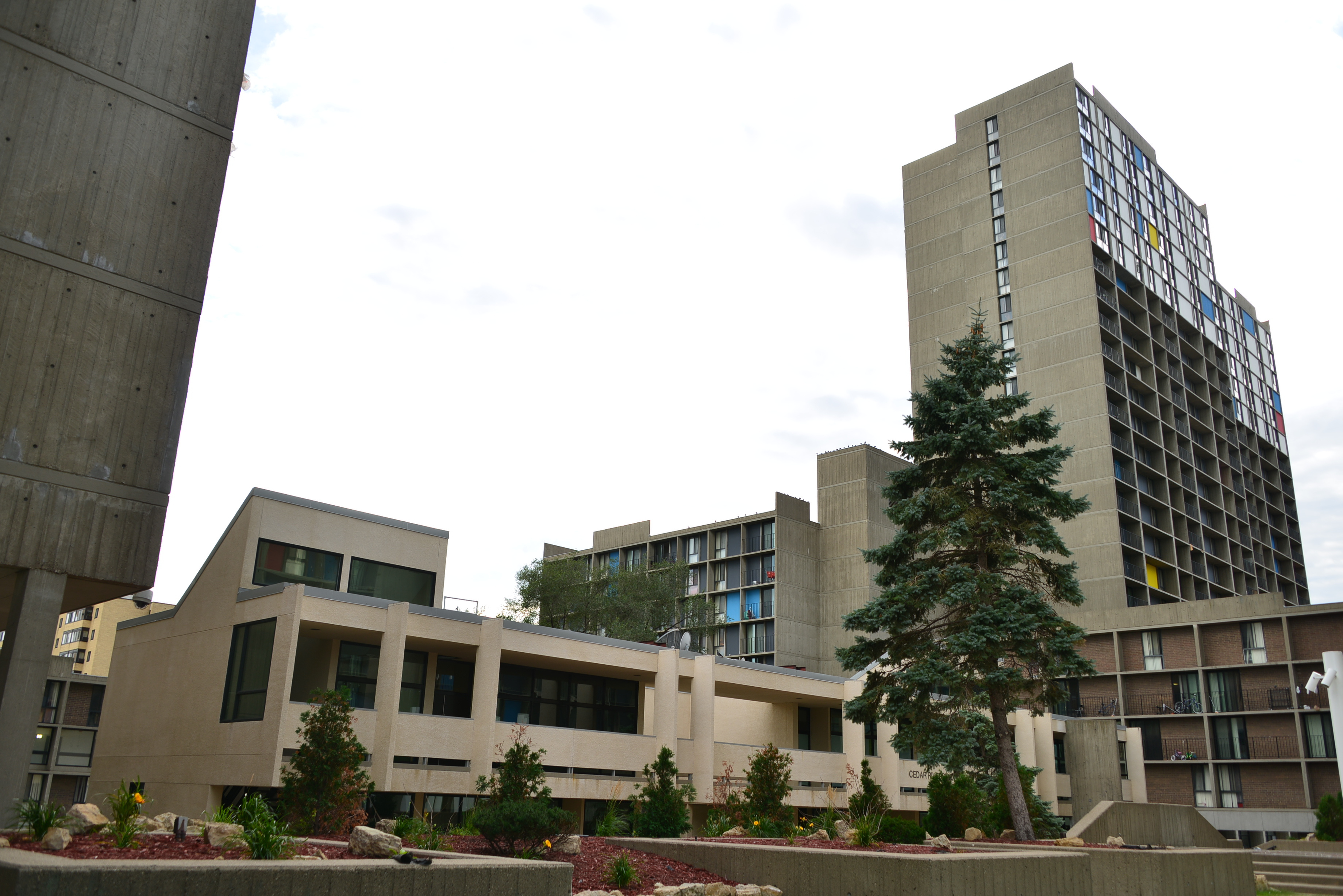 The building housing Cedar-Riverside Community School inside Riverside Plaza, Minneapolis.